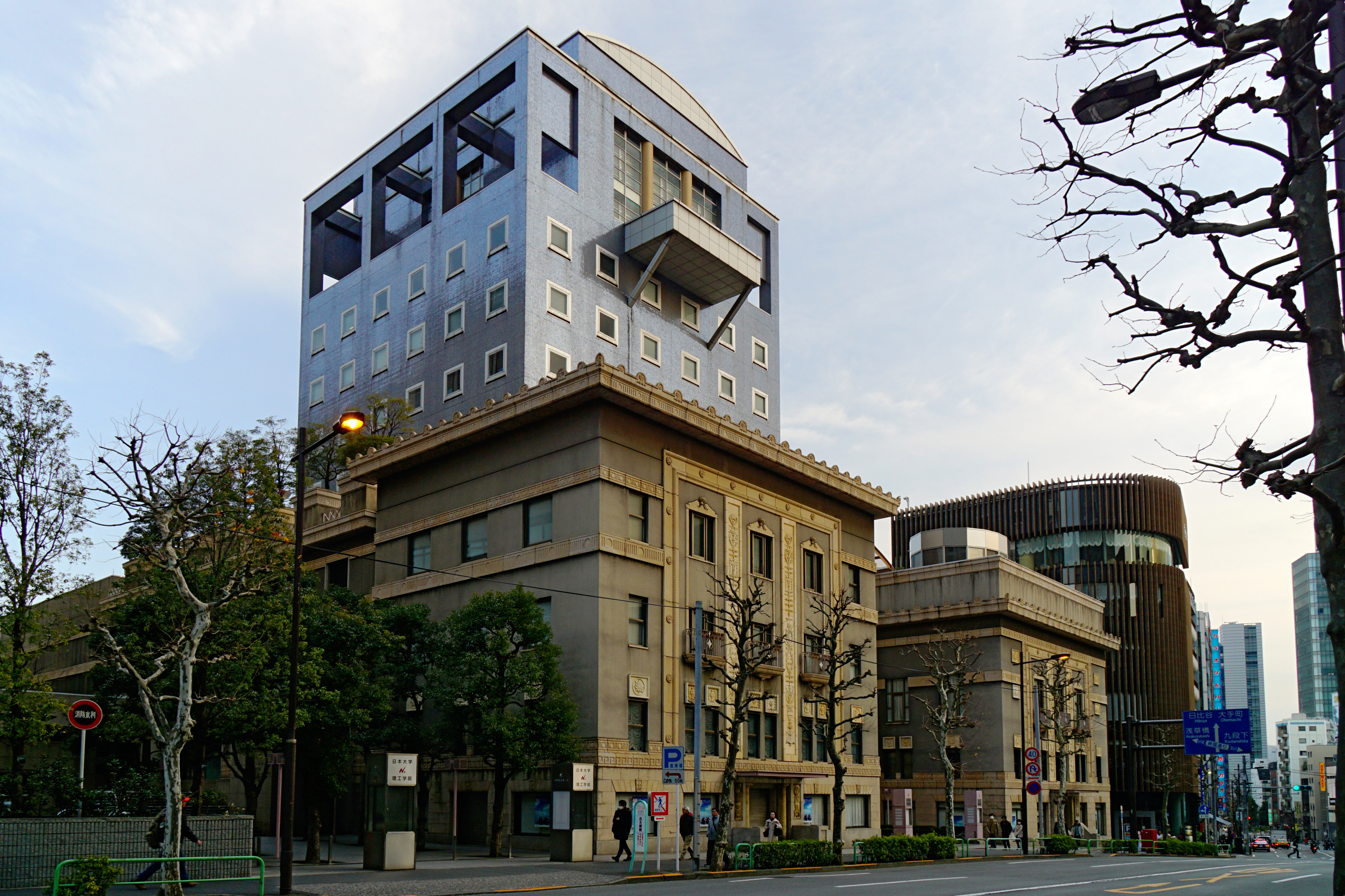 Nihon University Ochanomizu Square Building in Tokyo, Japan